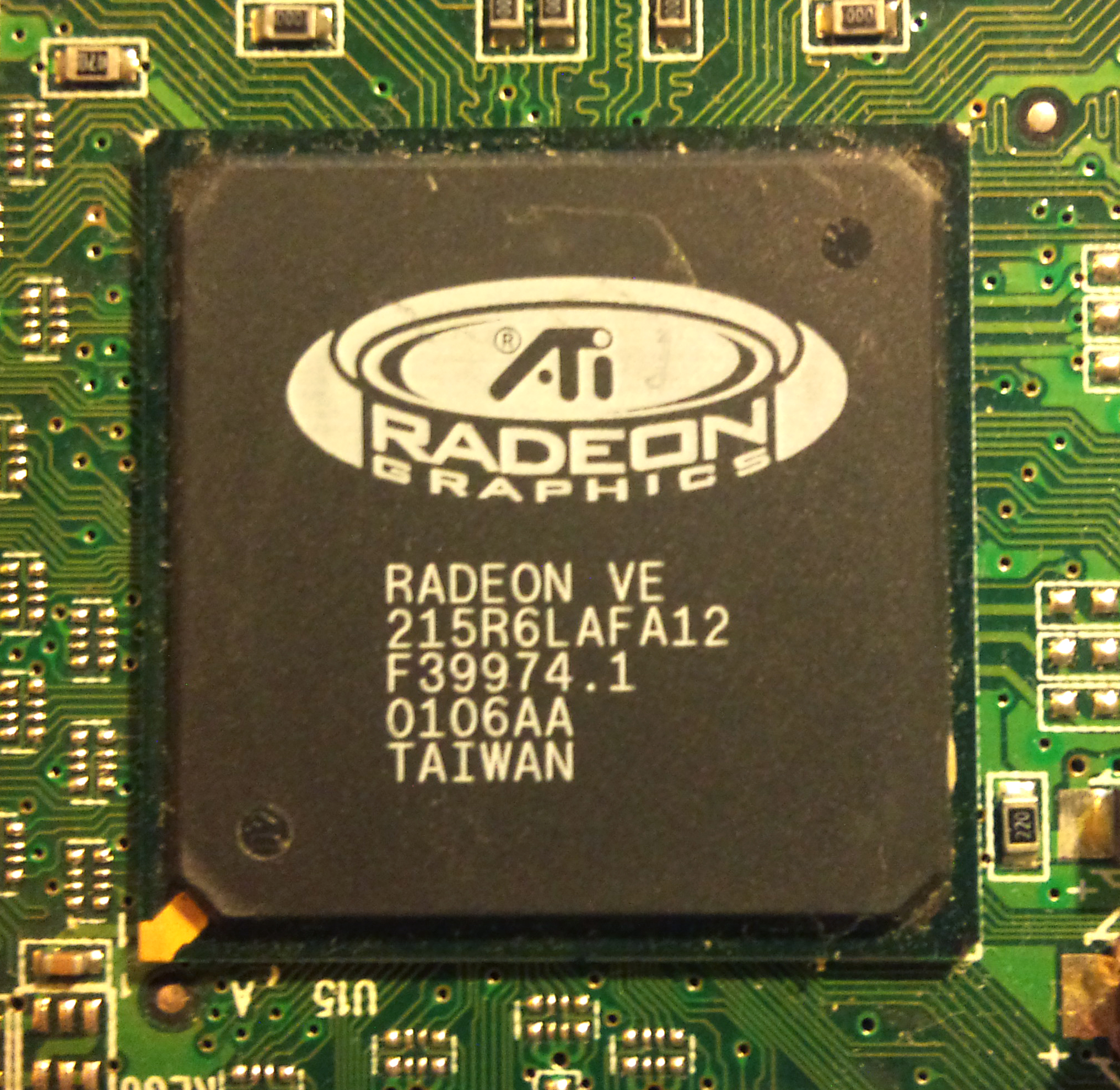 ATi Radeon VE chip (RV100)